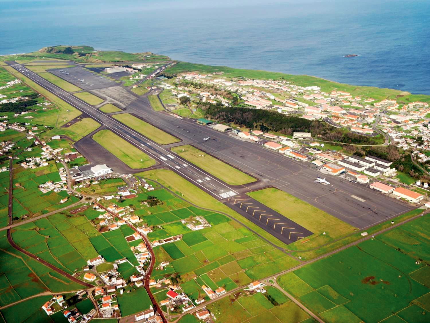 Aerial photo of Lajes Air Base No. 4 taken from a Portuguese Air Force helicopter assigned to the Base.